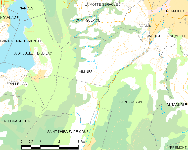 Map of French municipality Vimines